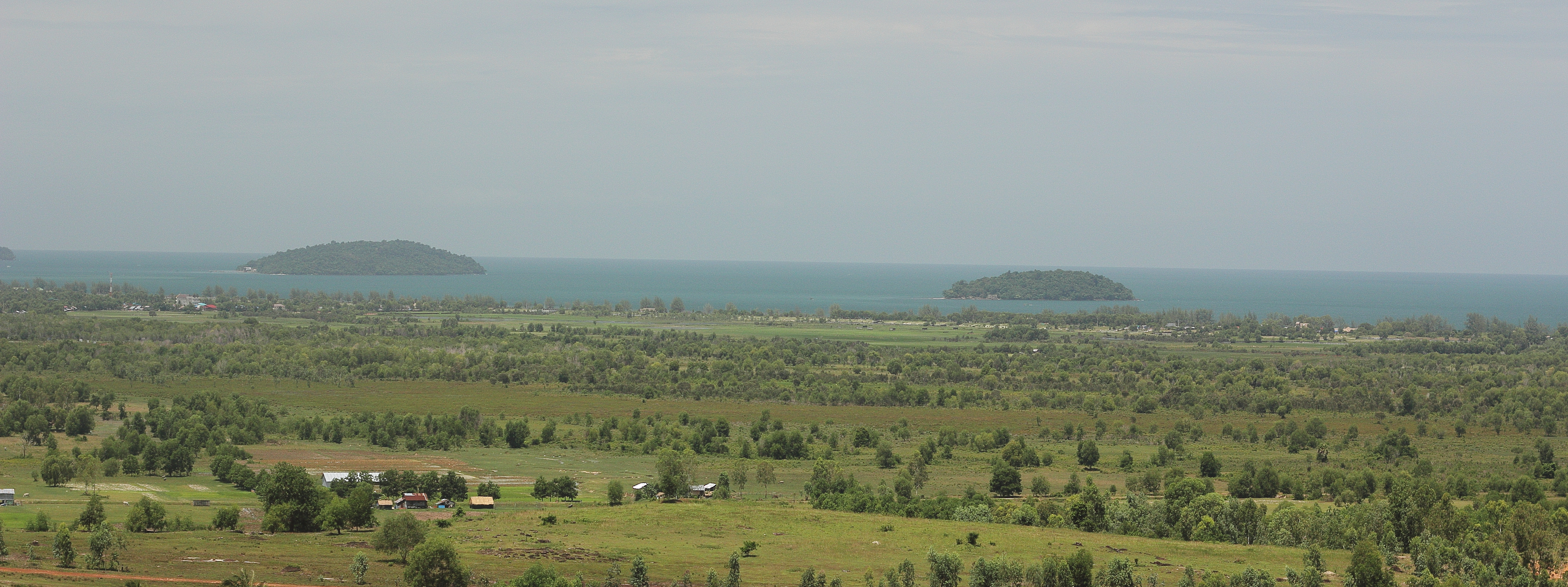 Cambodia, Krong Preah Sihanouk. Island Kaoh Tres and Kaoh Chanloh.